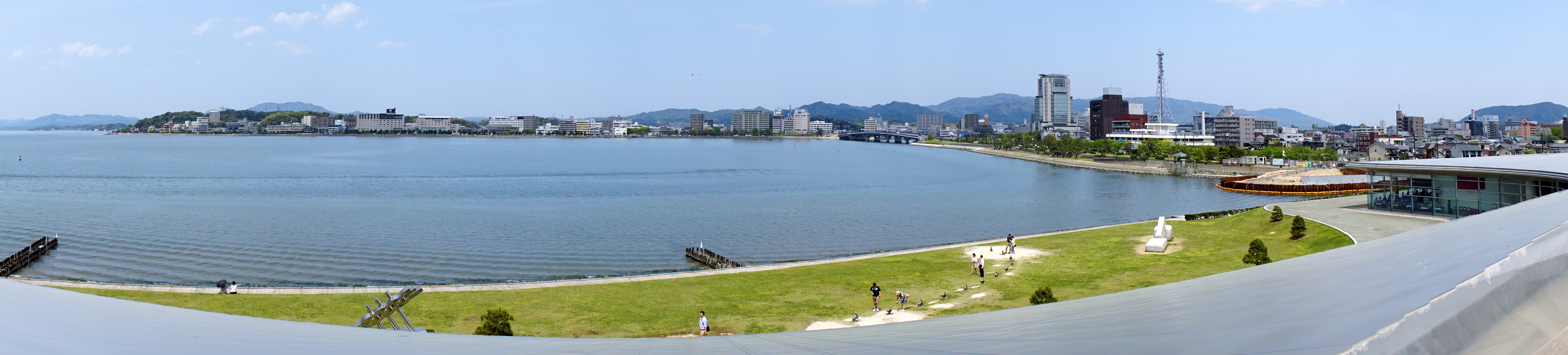 Shimane Art Museum in Matsue, Shimane prefecture, Japan